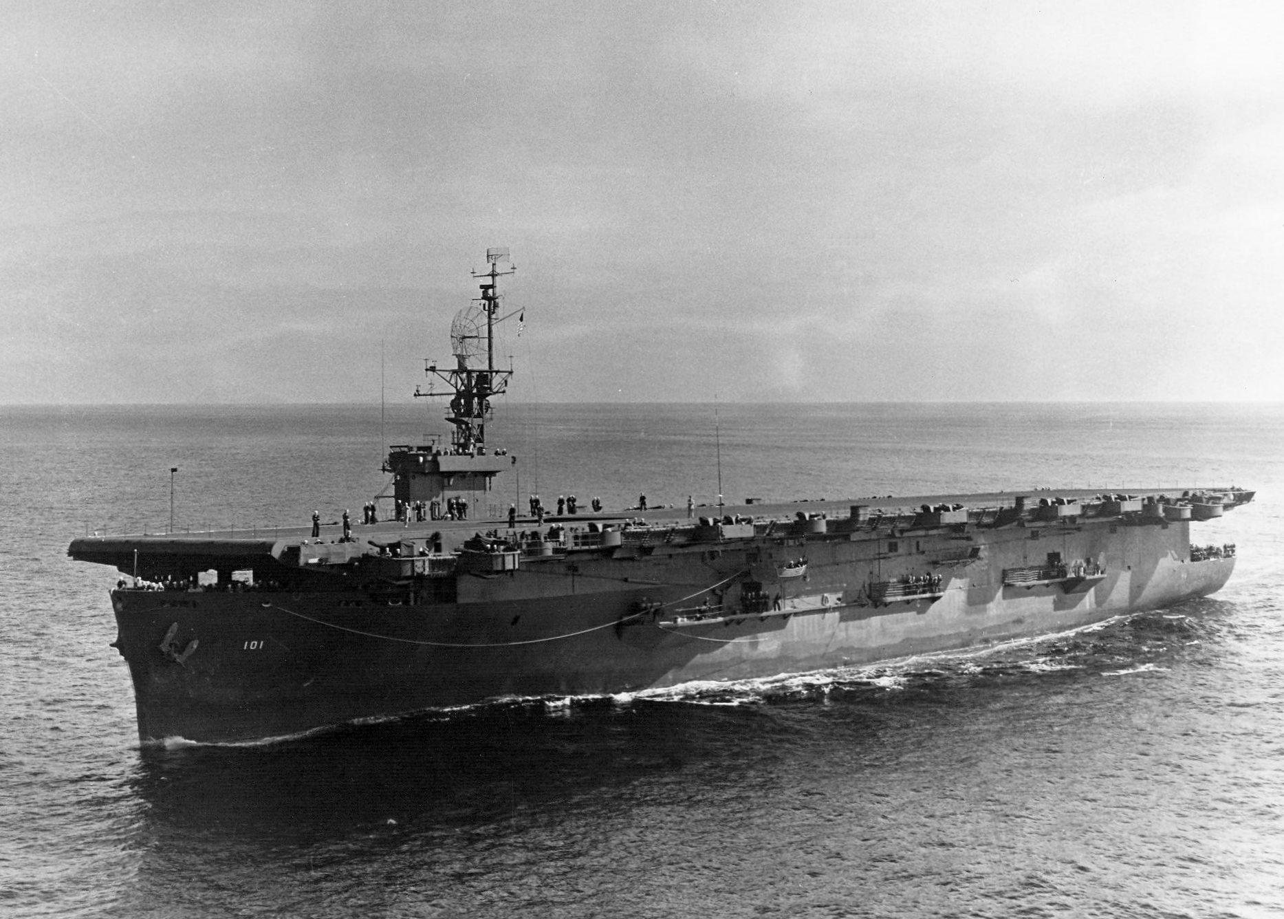 The U.S. Navy escort carrier USS Matanikau (CVE-101) underway shortly after her commissioning.